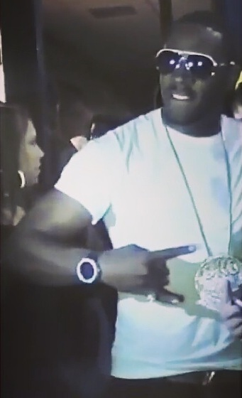 rapper Young Dro